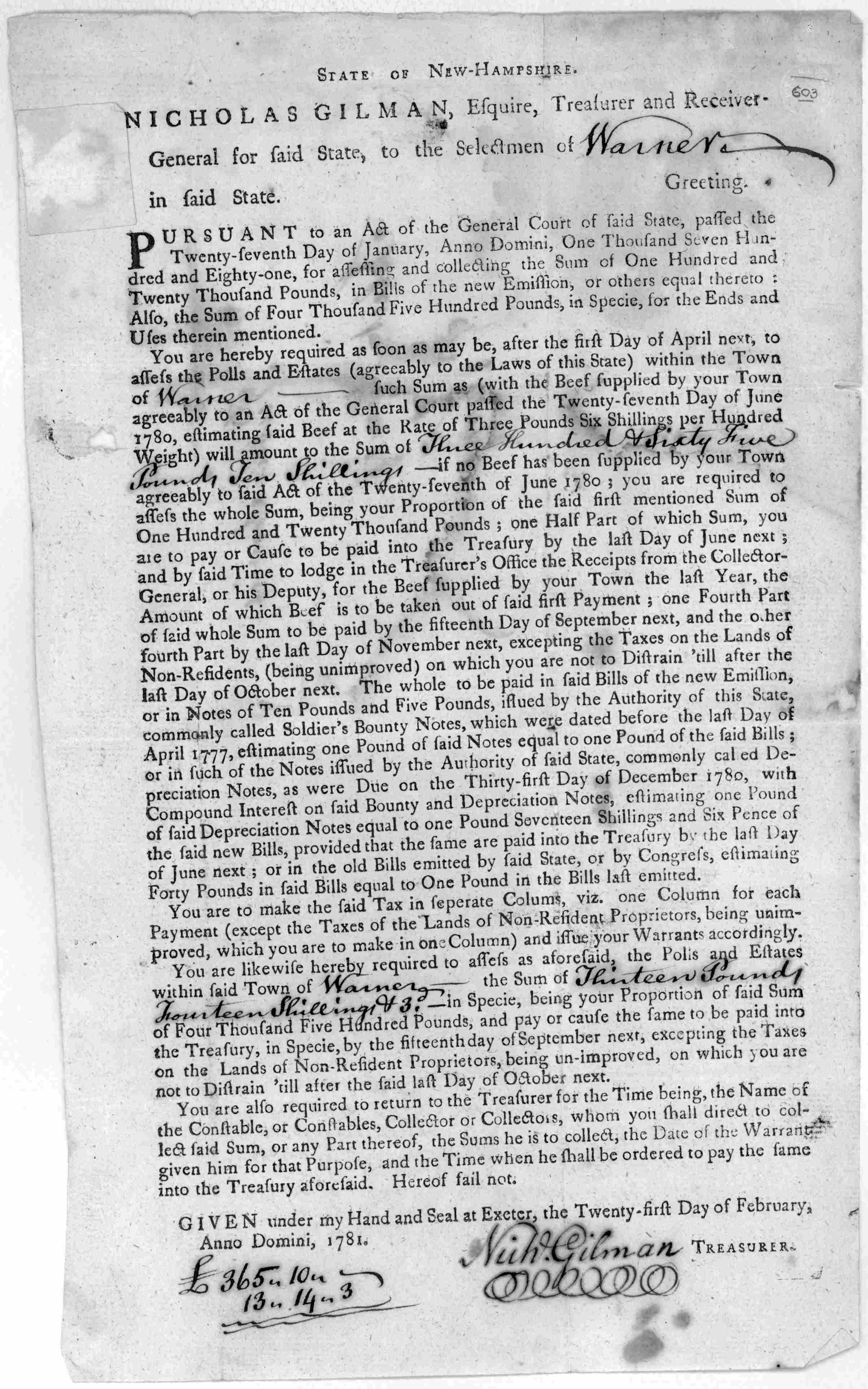 Order by Nicholas Gilman, Esq., Treasurer and Receiver General, State of New Hampshire, to the selectmen of New Hampshire pursuant to an act of the General Court of New Hampshire. Nicholas Gilman was a delegate to the Continental Congress from New Hampshire, a signer of the United States Constitution, a member of the United States House of Representatives, and later the Senator from New Hampshire. The Library of Congress, Washington, D.C.